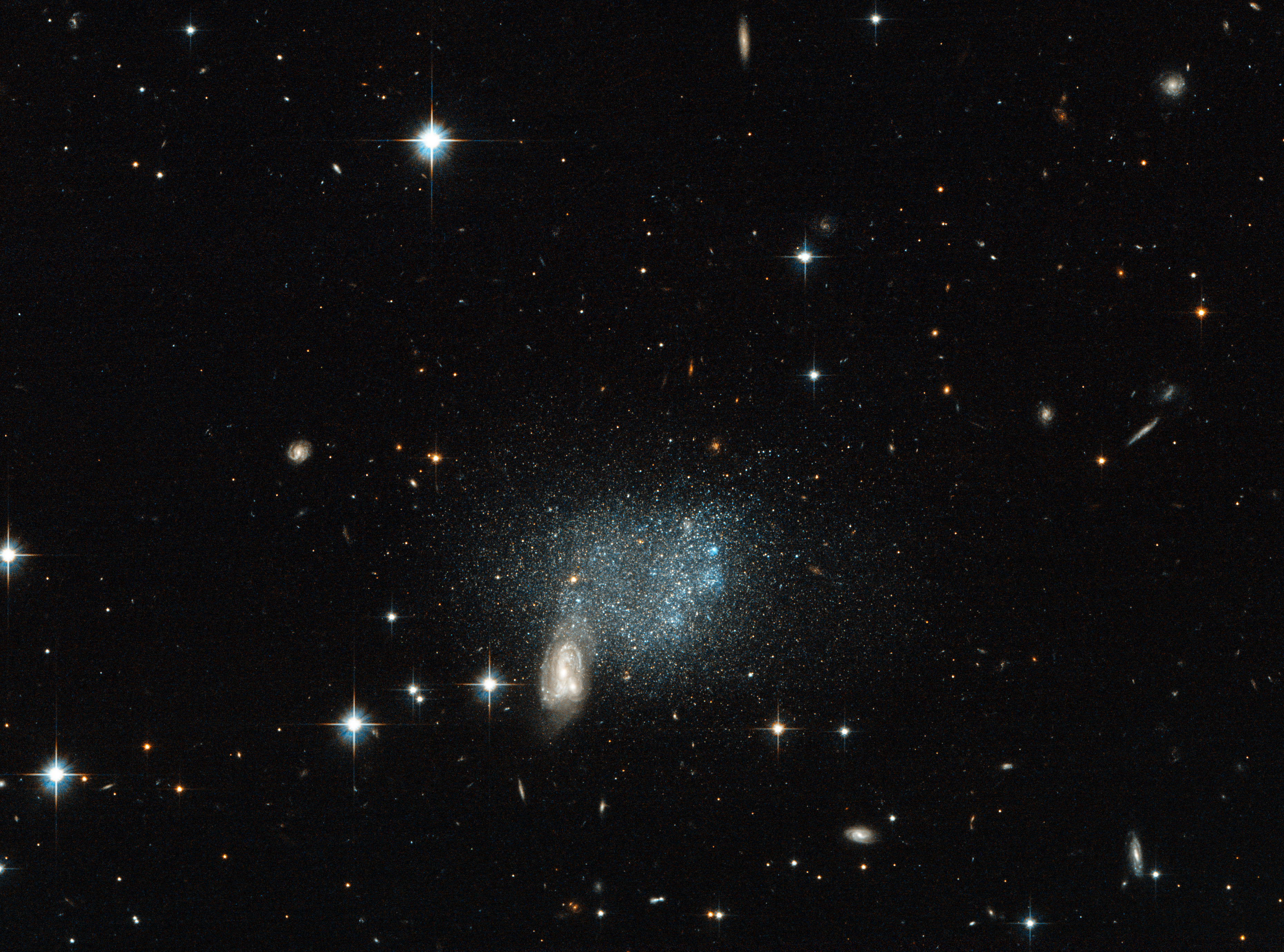 Astronomical pictures sometimes deceive us with tricks of perspective. Right in the centre of this image, two spiral galaxies appear to be suffering a spectacular collision, with a host of stars appearing to flee the scene of the crash in a chaotic stampede. However, this is just a trick of perspective. It is true that two spiral galaxies are colliding, but they are millions of light-years away, far beyond the cloud of blue and red stars near the merging spiral. This sprinkling of stars is actually an isolated, irregular dwarf galaxy named ESO 489-056. The dwarf galaxy is actually much more distant than many bright stars in the foreground of the image, which are located much closer to us, in the Milky Way. ESO 489-056 is located 16 million light-years from Earth in the constellation of Canis Major (The Greater Dog), in our local Universe. It is composed of a few billion red and blue stars — a very small number when compared to galaxies like the Milky Way, which is estimated to contain around 200 to 400 billion stars, or the Andromeda Galaxy, which contains a mind-boggling one trillion. A version of this image was entered into the Hubble's Hidden Treasures image processing competition by contestant Luca Limatola.